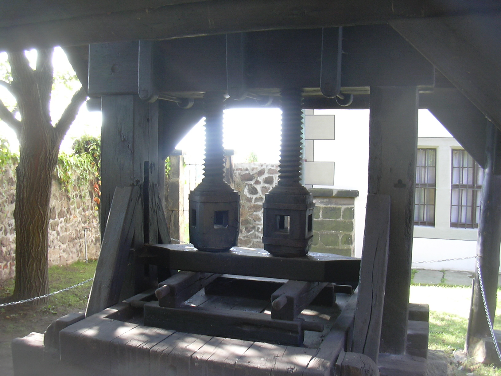 Wine press Hoflößnitz Castle, 19th century, Radebeul/Saxony, Germany